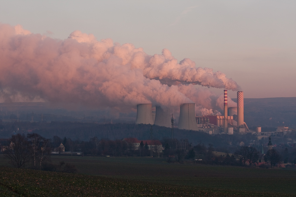 Turów power station, view from Germany